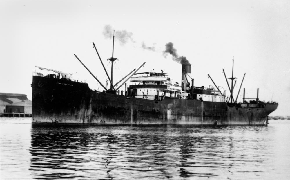 5,072 GRT cargo steamship King Gruffyd, built by the Hong Kong & Whampoa Dock Co, Kowloon in 1919 as War Trooper for the UK Shipping Controller. She was in Greek ownership 1919–23 as Ambatielos, then bought by Dodd, Thomson & Co ("King Line") who renamed her King Gruffyd. In 1939 the Admiralty requisitioned her as the Q-ship HMS Maunder (X 28). In 1941 she served as an armed merchant cruiser. That December she was returned to Dodd, Thomson and reverted to her previous name King Gruffyd. In March 1943 she was in Convoy SC 122 from New York to Liverpool when the U-boat U 338 torpedoed and sank her in the North Atlantic.